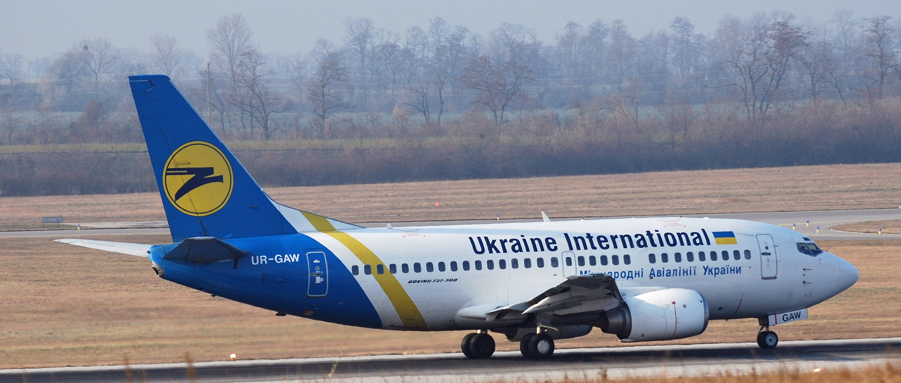 Boeing 737-500 at Wien Schwechat